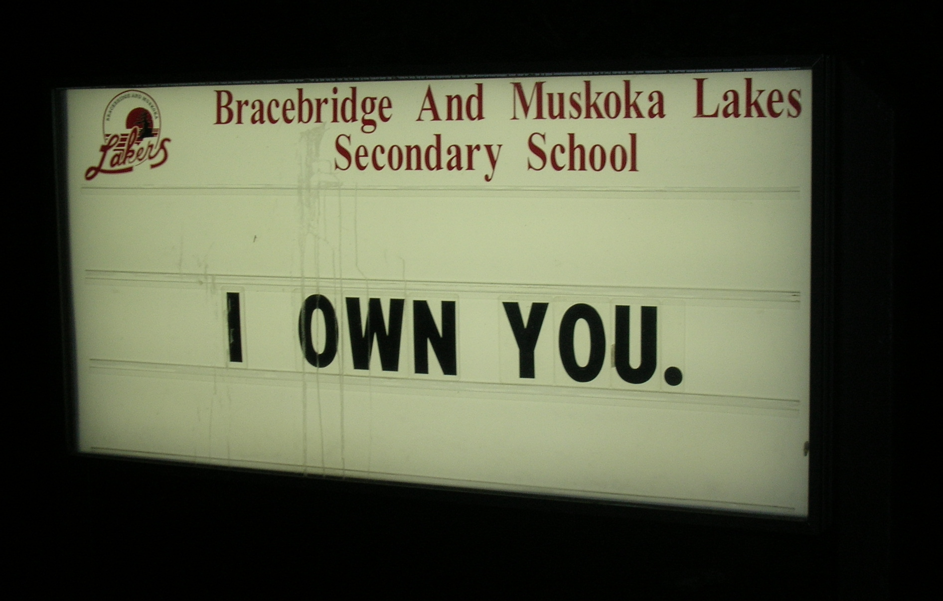 School sign unofficially edited by students, an example of Owned.